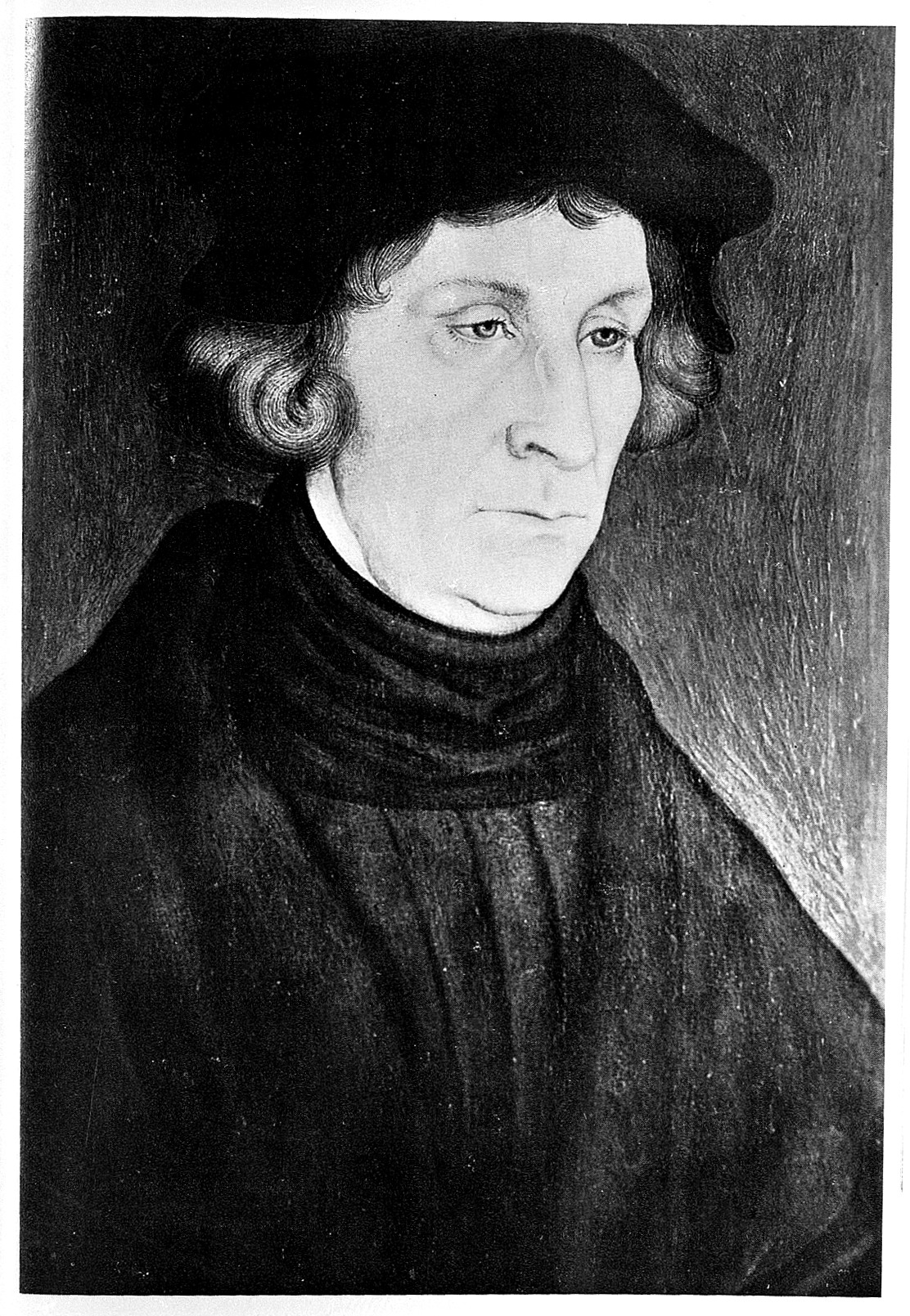 Portrait of Otto Brunfels General Collections Keywords: Brunfels, Otto; Cranach, the Elder, Lucas